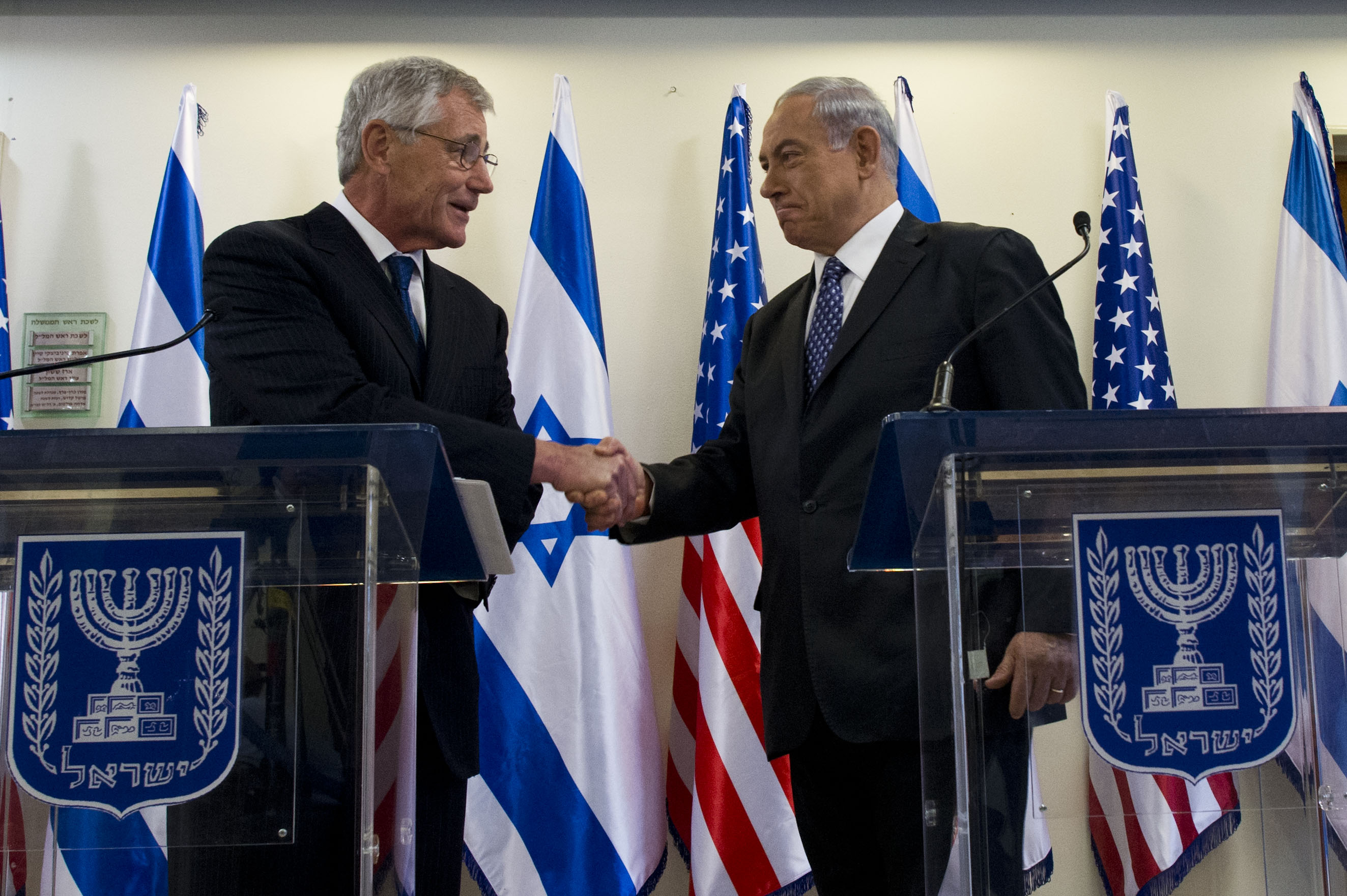 ecDef visits Israel - May 15-16, 2014